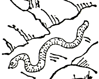 Nozuchi (野槌) from the Wakan Sansai Zue (和漢三才図会)